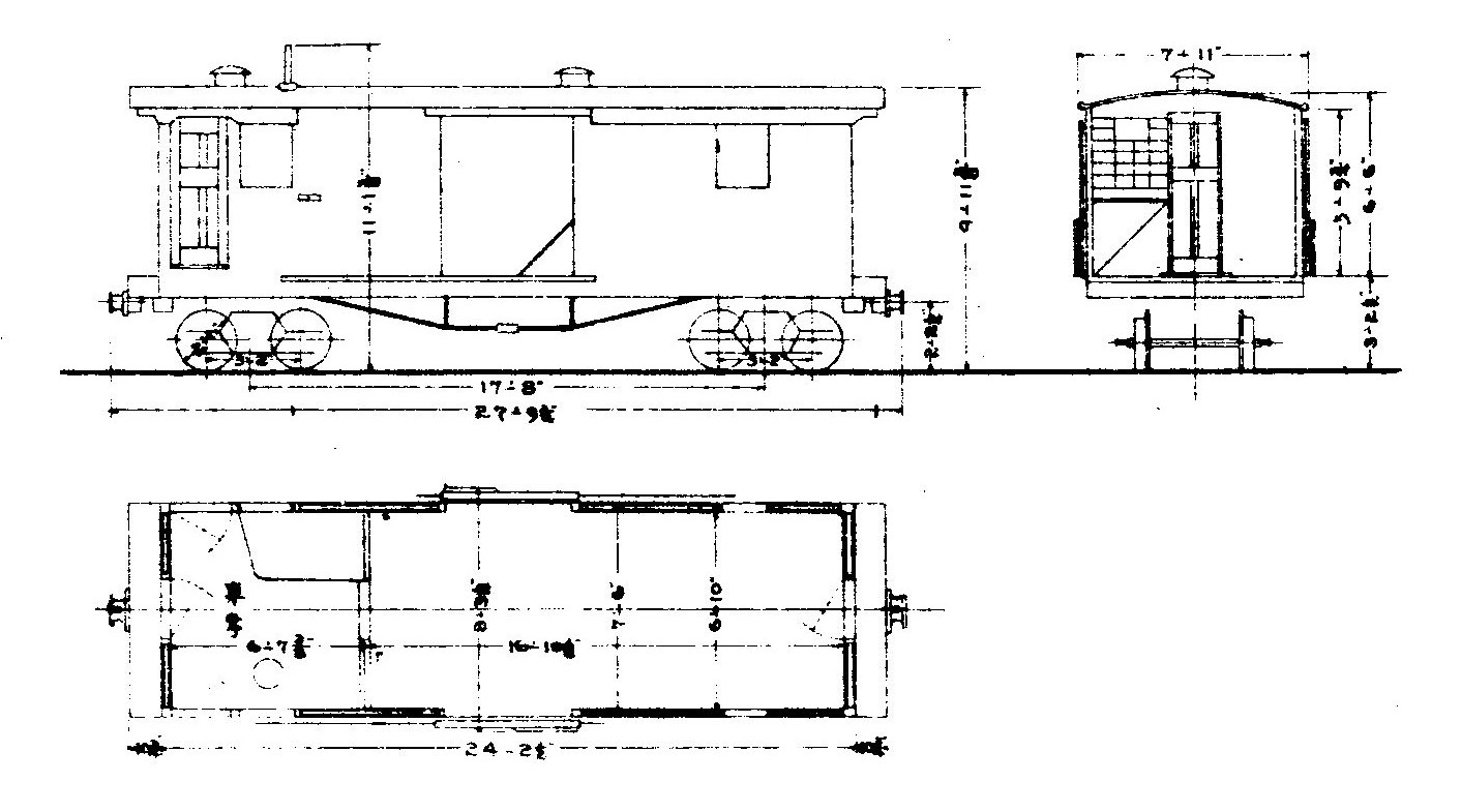 Type drawing of JGR's passenger car Koni8890 (ex. Hokkaido Tanko Railway Ri-1)